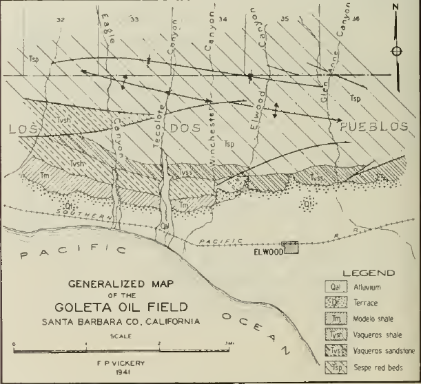 Goleta Oil Field Geologic Map